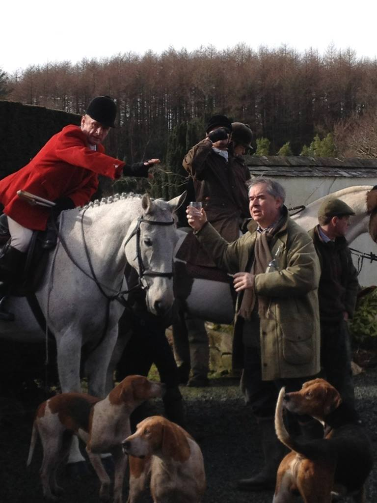 Geoffrey Cox, Member of Parliament for Torridge & West Devon, toasts David Lewis, huntsman of the Lamerton Foxhounds, at a lawn meet hosted by Cox at his constituency home near Lamerton in early 2014.